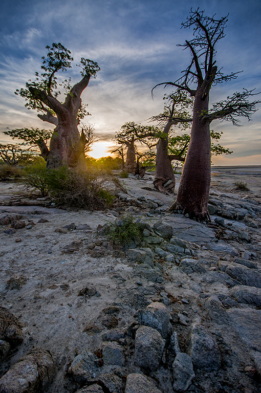 Sunrise at Kubu Island within the Maghadighadi Pans in Botswana. Boababs are framing the sun.